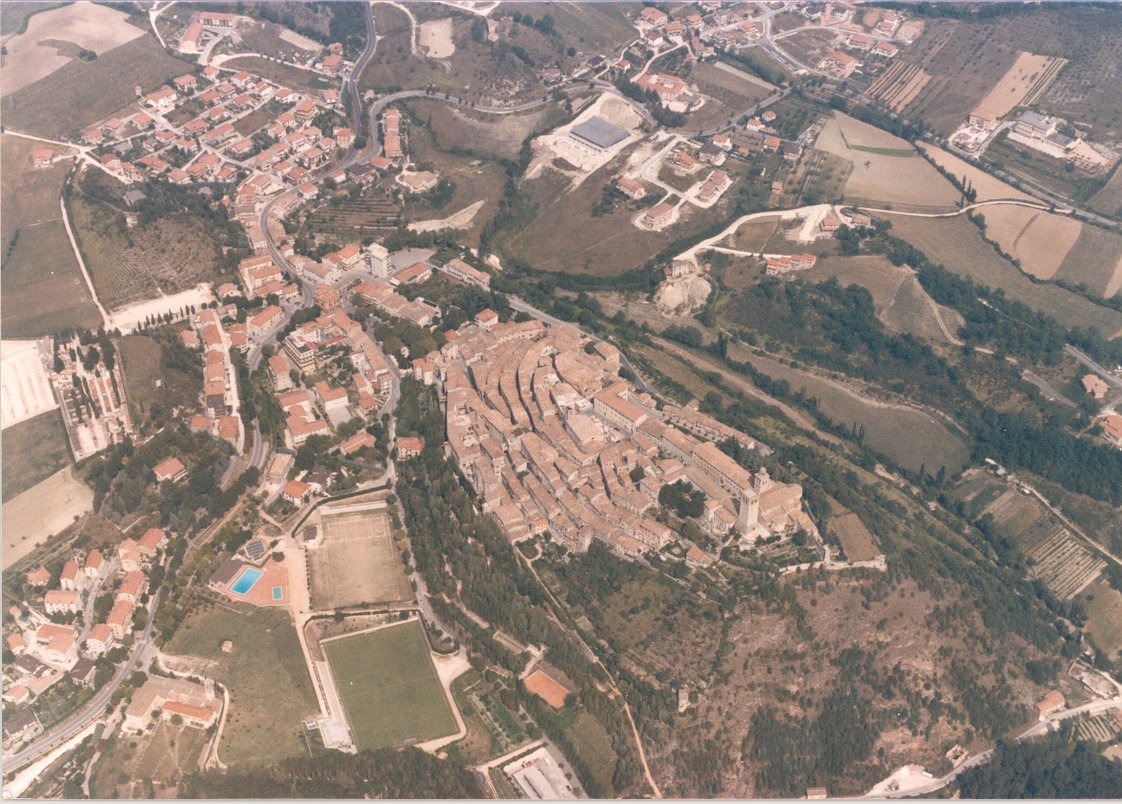 Air view of Nocera Umbra (PG), Italy